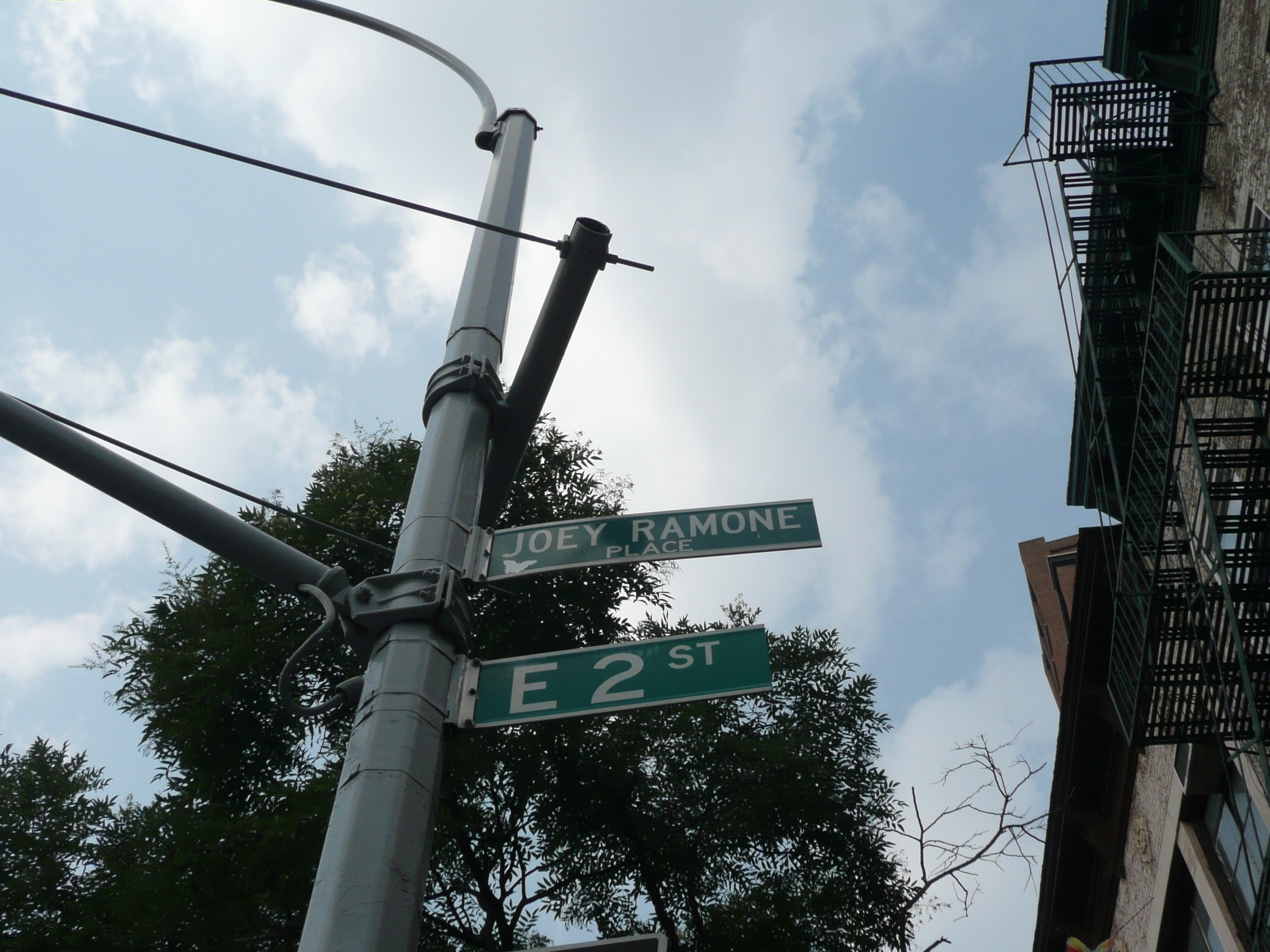 Joey Ramone Place at Bowery Street, New York